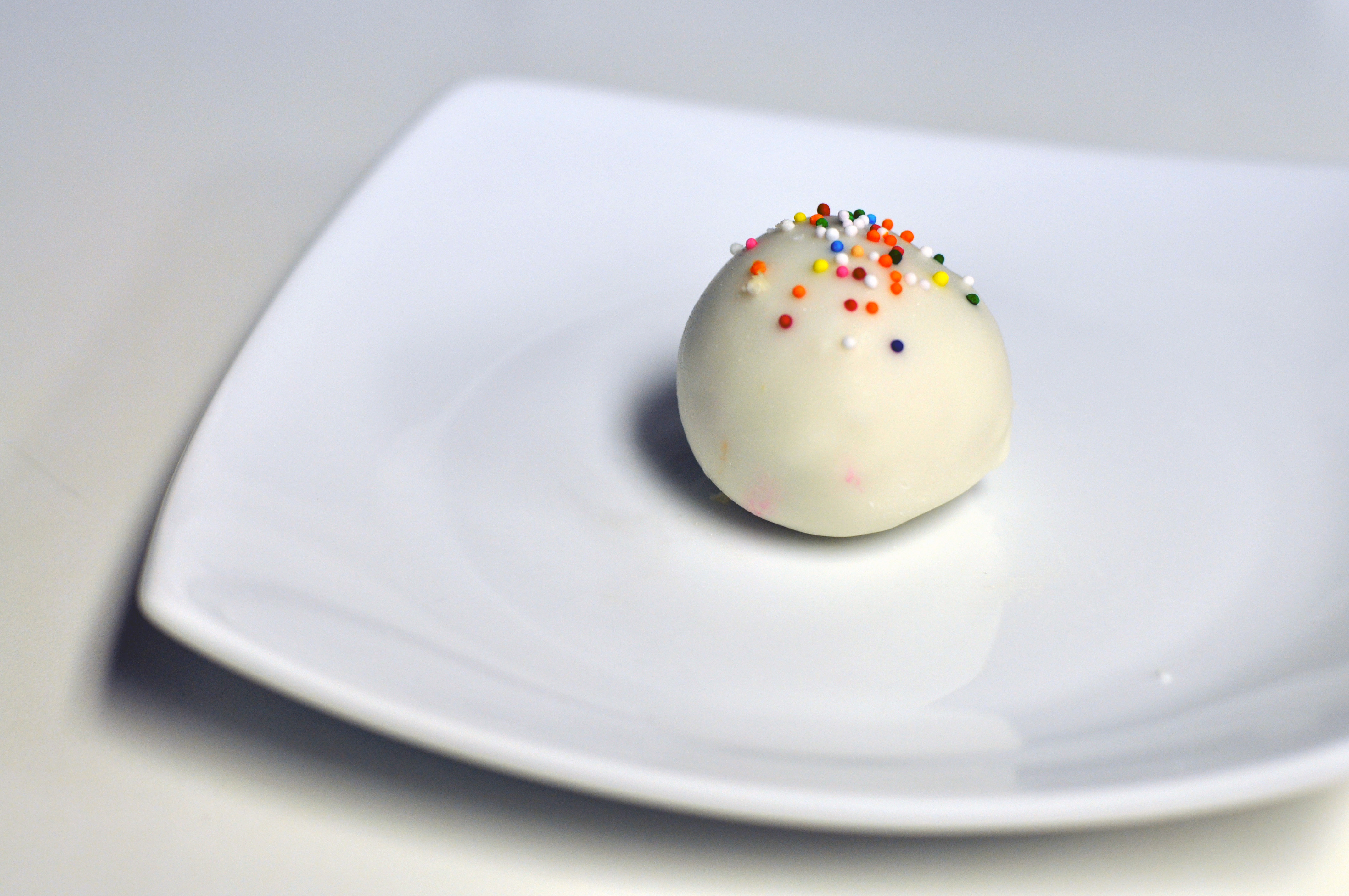 Now THIS is the perfect cake ball.